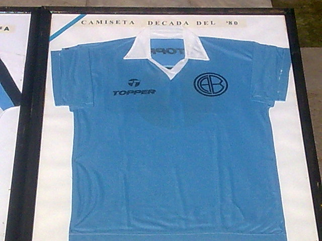 One of the shirts used by Belgrano soccer club in the 80s.